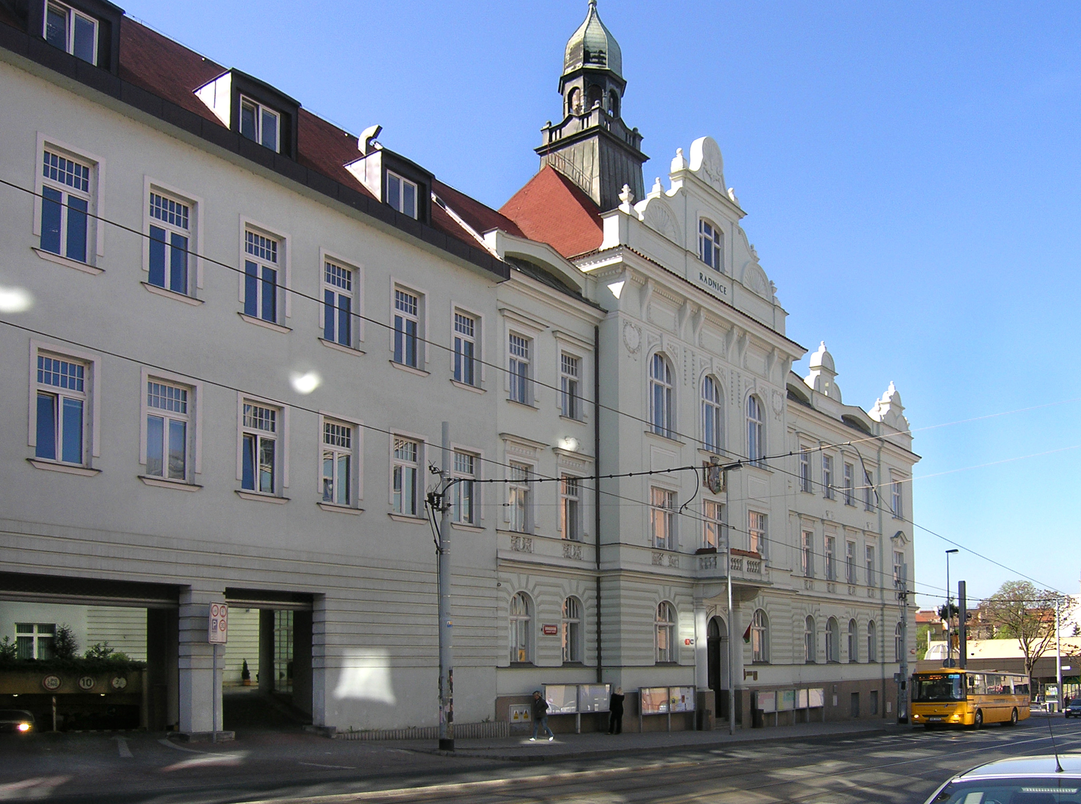 Town Hall of Prague 9 at Vysočany, Sokolovská street